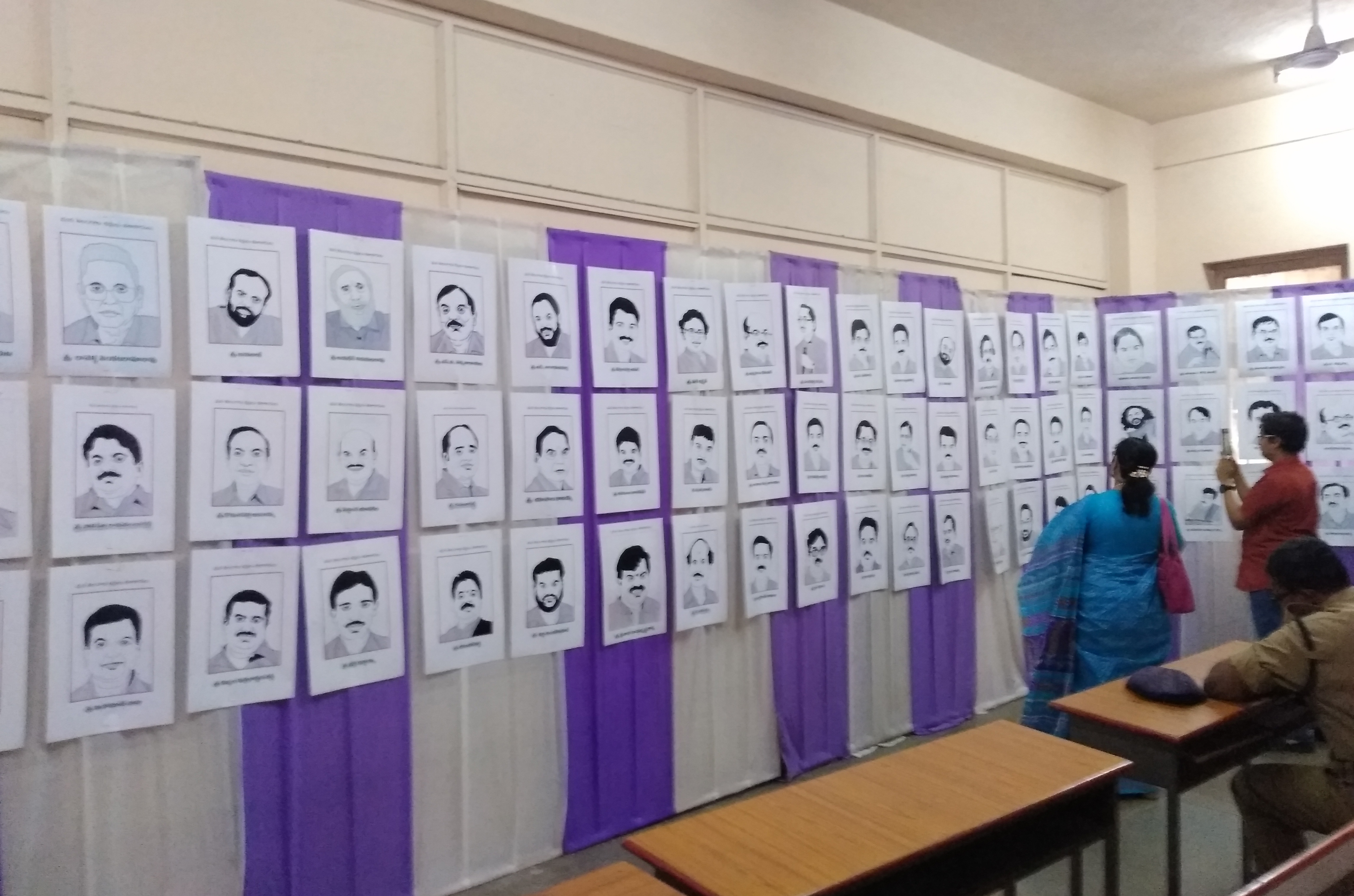 తెలుగు ప్రపంచ మహాసభల వద్ద దృశ్యాలు,వ్యక్తులు,సమావేశాలు